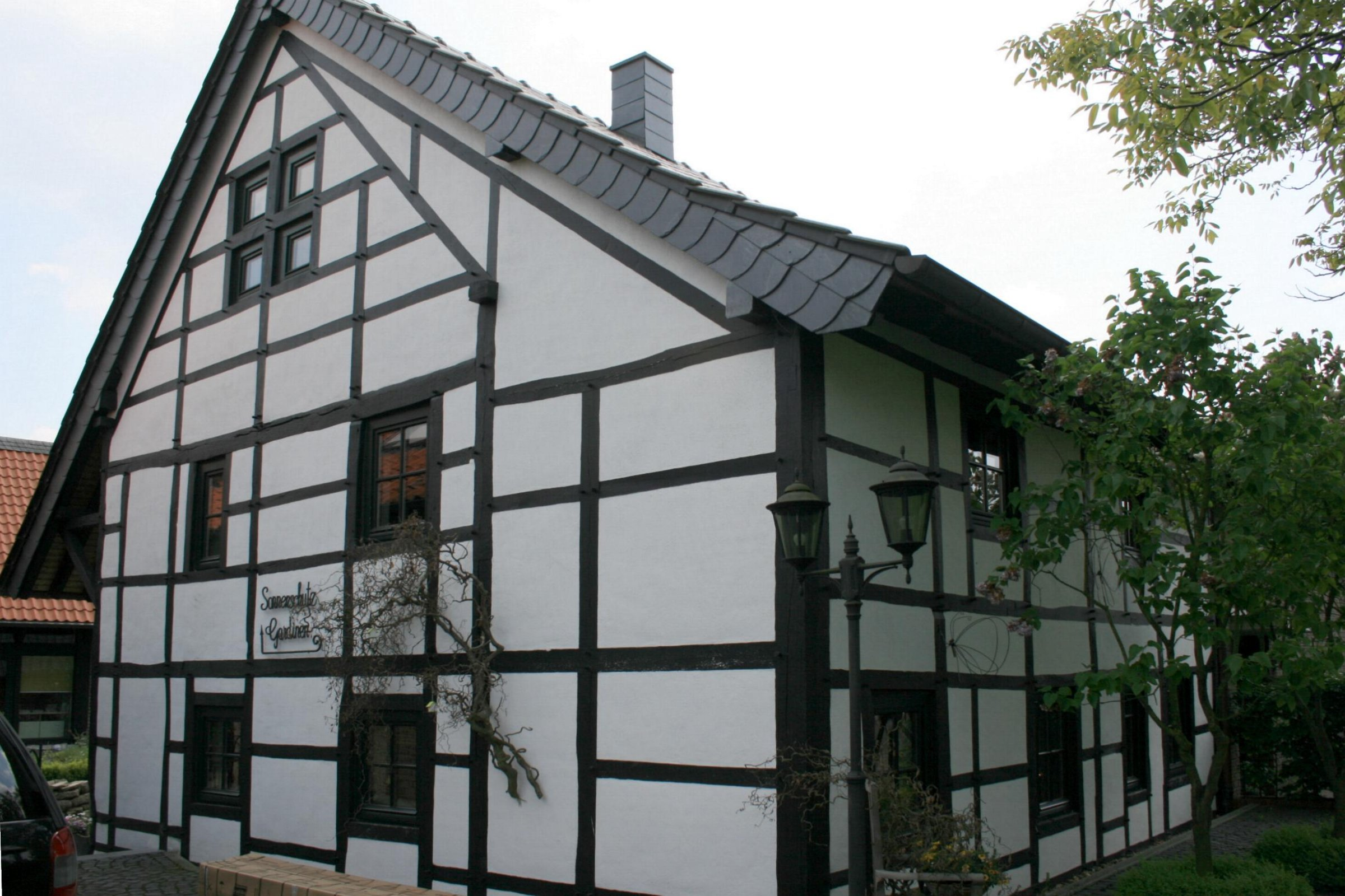 Cultural heritage monument No. R 044 in Mönchengladbach